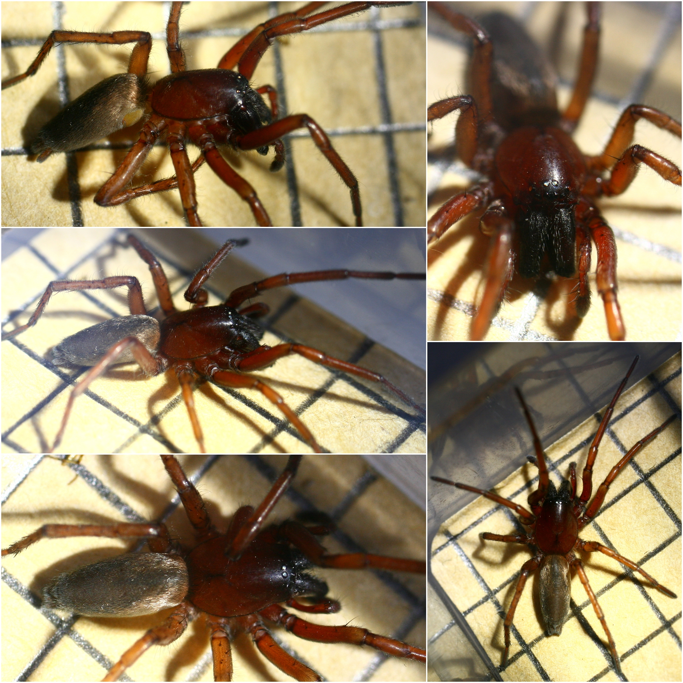 Drassodes cupreus (Gnaphosidae). Male caught on path across heath at night. 10.5mm long. ID based on separated pair of teeth on jaws. Bricket Wood Common, Hertfordshire, England, 22nd April 2011.